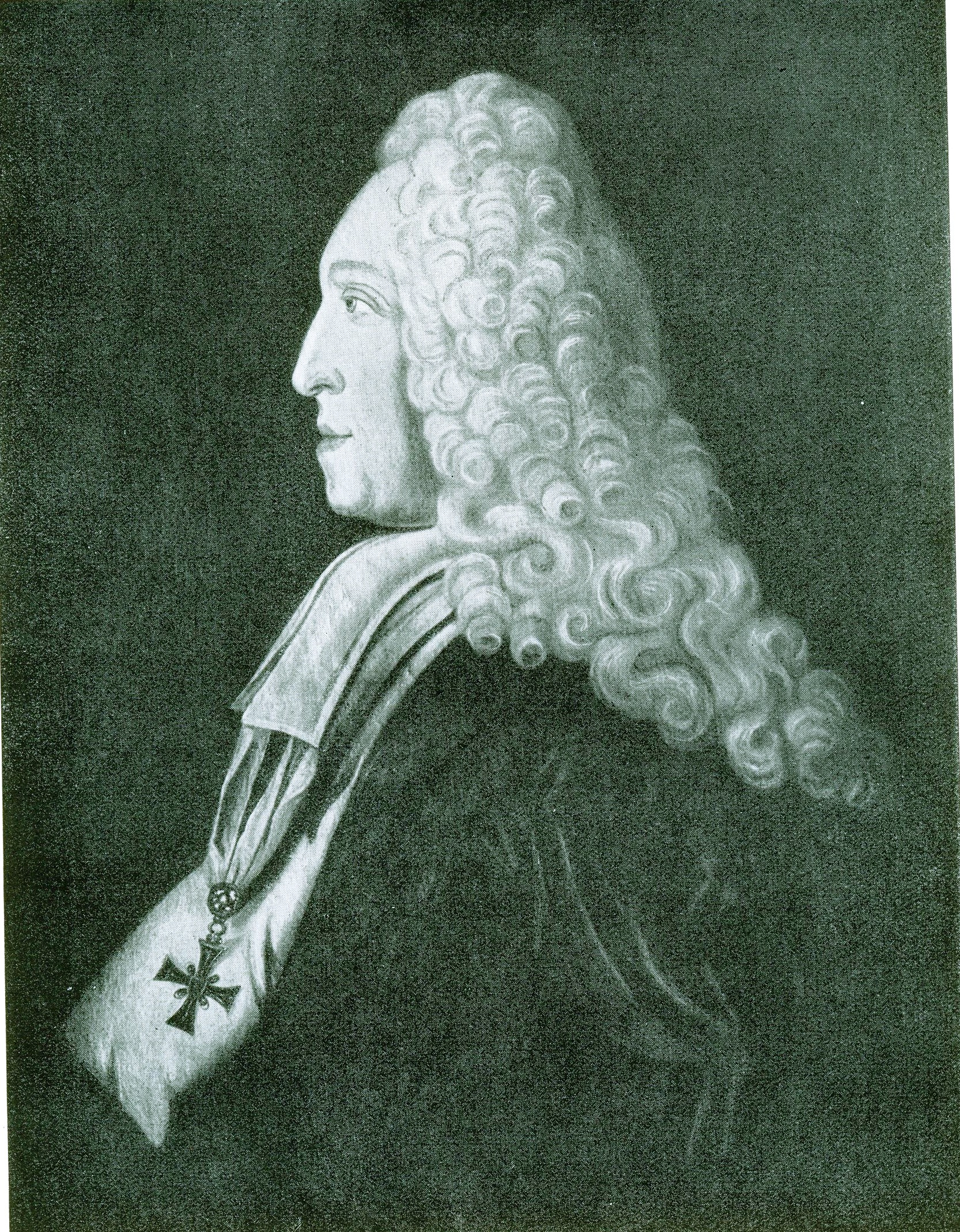 Portrait of Count Palatine Francis Louis of Neuburg (1664-1732)